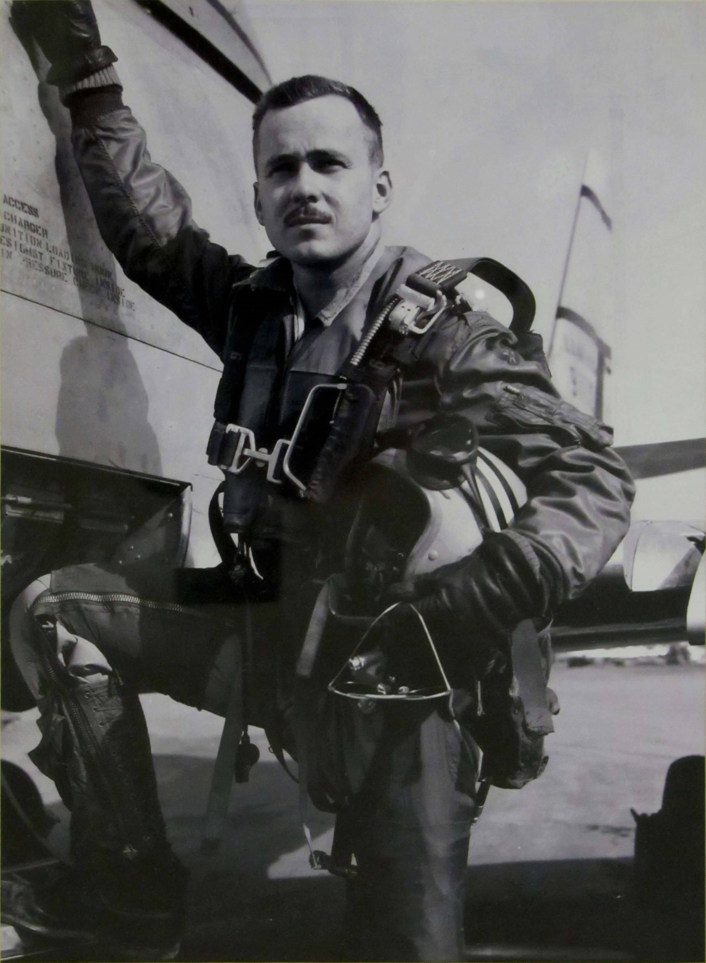 A photograph, displayed in the 335th Fighter Squadron Headquarters building of Captain Robert T. Latshaw. This photograph is part of a collage depicting seven of the sixteen Korean War fighter aces from the 335th Fighter-Interceptor Squadron. Captain Latshaw is credited with five kills and became an ace with his fifth kill on 5 March 1952.